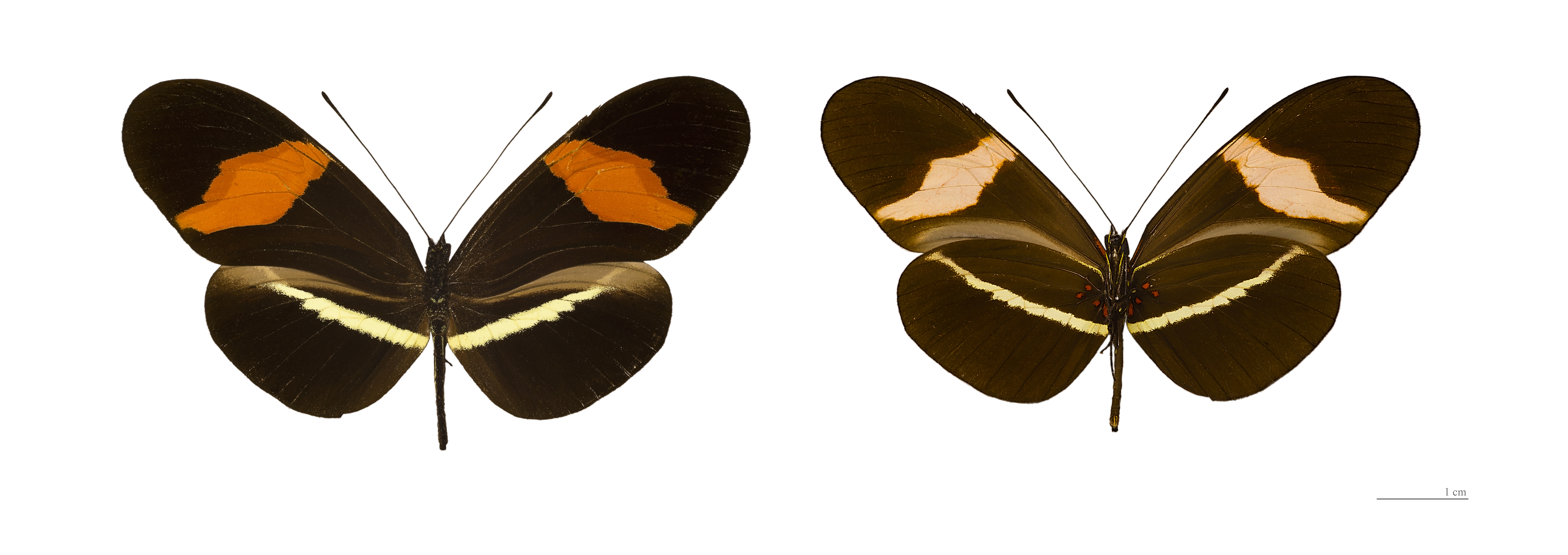 ♂ - Two views of same specimen Locality: San pedro de soteapan Veracruz, Mexico.